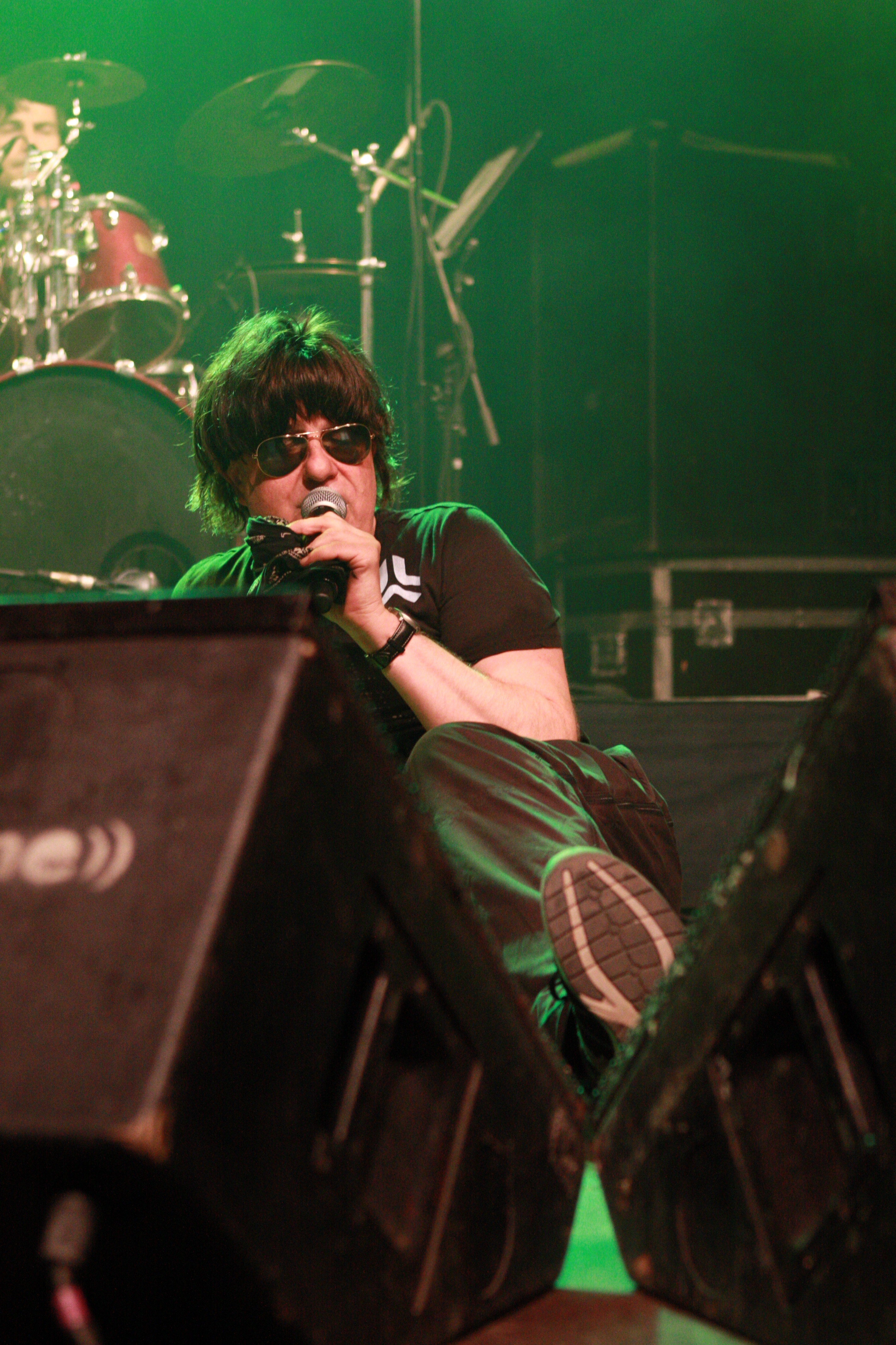 Ronnie Urini, a.k.a. "Ronnie Rocket" , Austrian musician